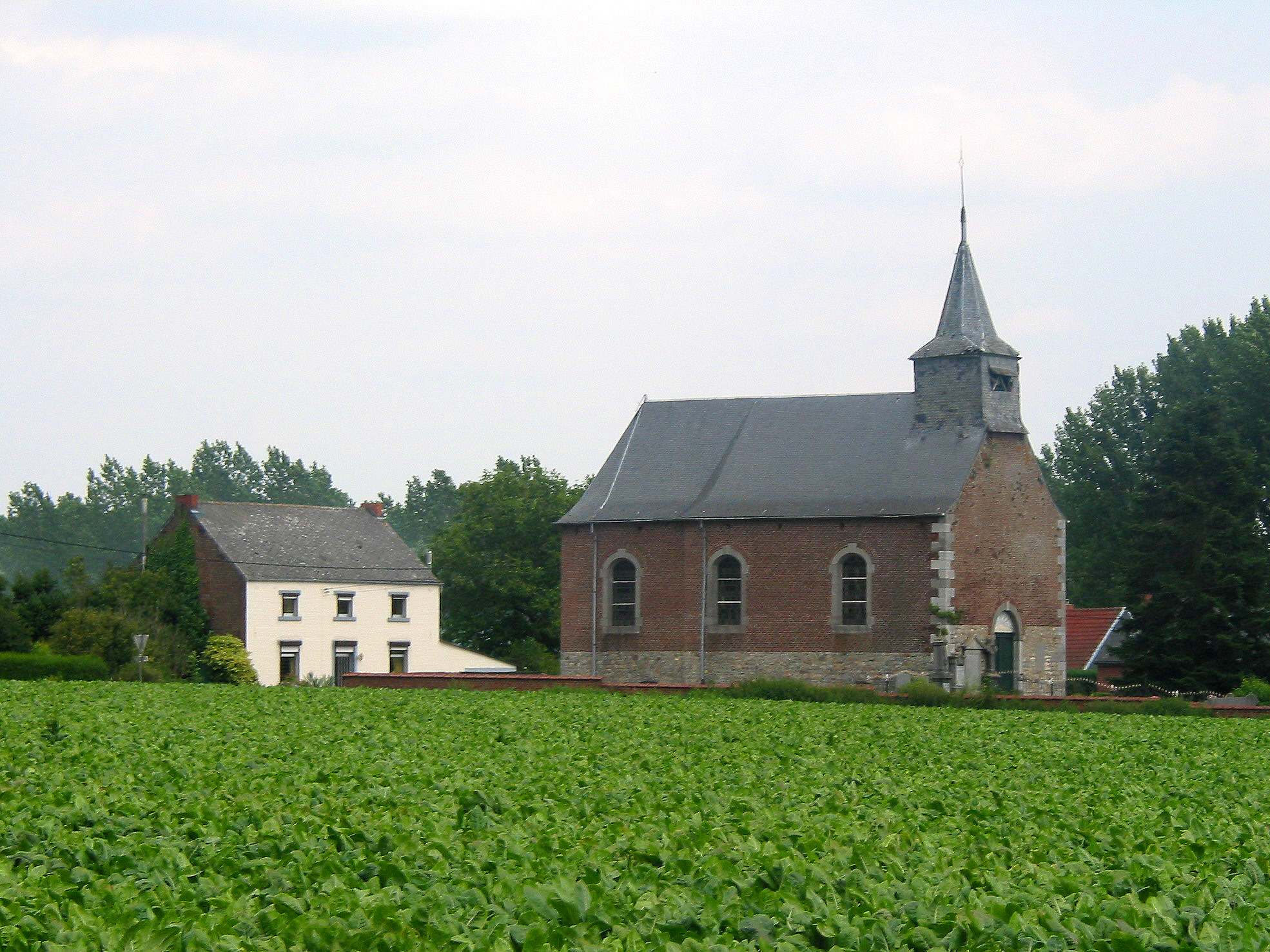 Taviers (Francquenée) (Belgium), the Saint Peter's chapel (XVIIIth century).